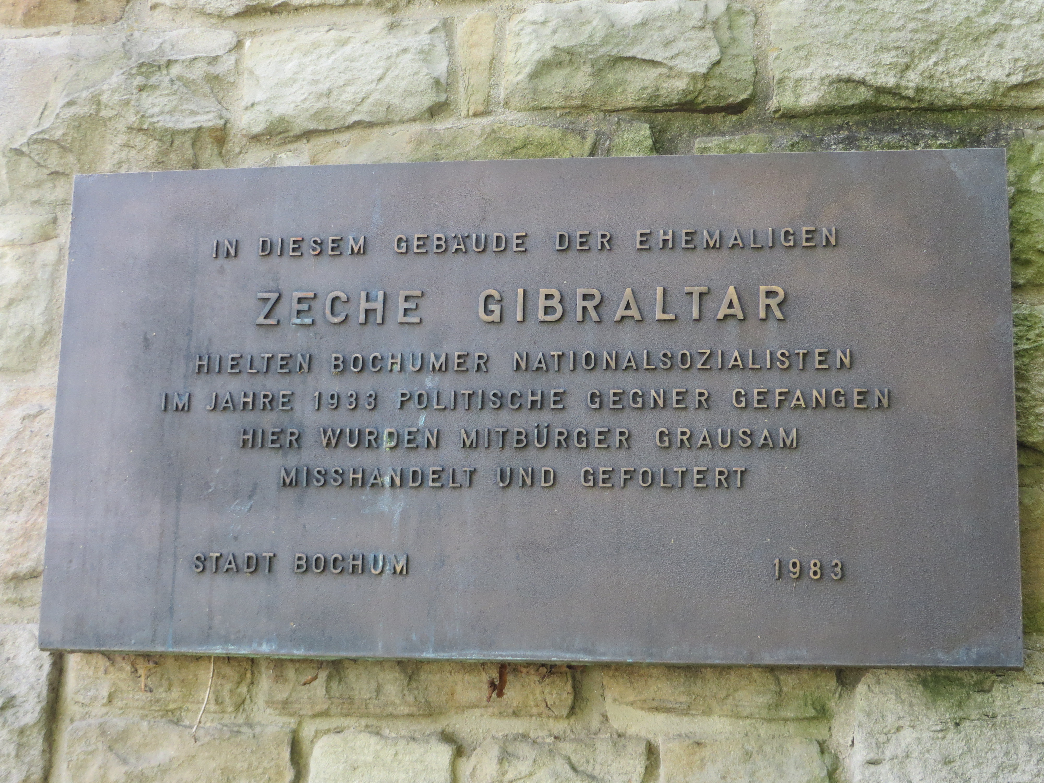 Info board at Zeche Gibraltar (Mine Gibraltar) in Bochum, GermanyEsperanto: Informsigno ĉe Zeche Gibraltar (Minejo Gibraltar) en Bochum, Germanio